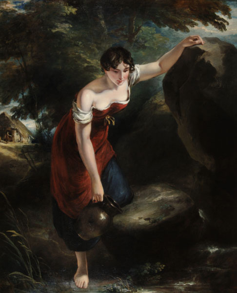 Girl at Spring, oil painting by Henry Thomson RA